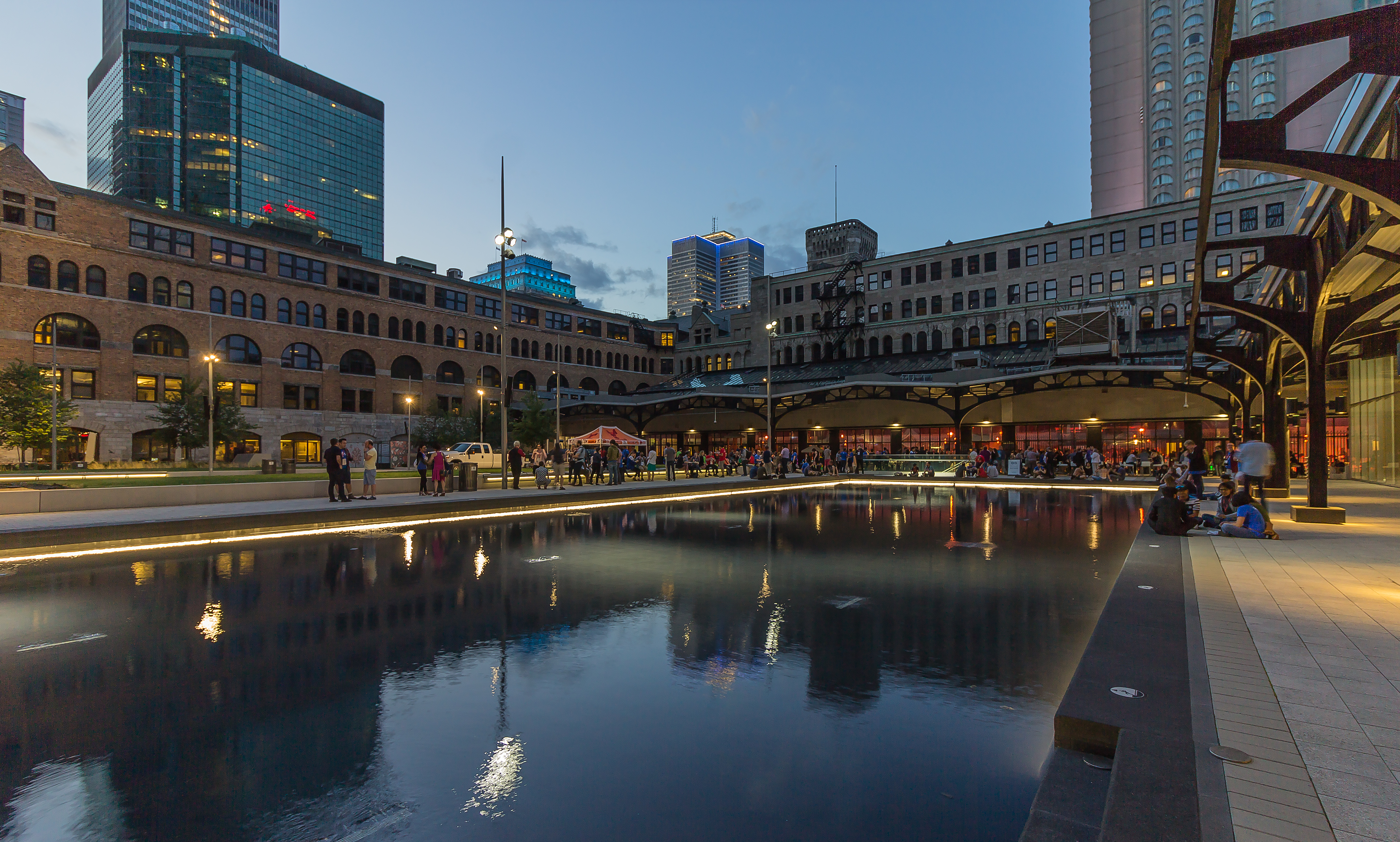 Wikimania 2017 - Closing Party